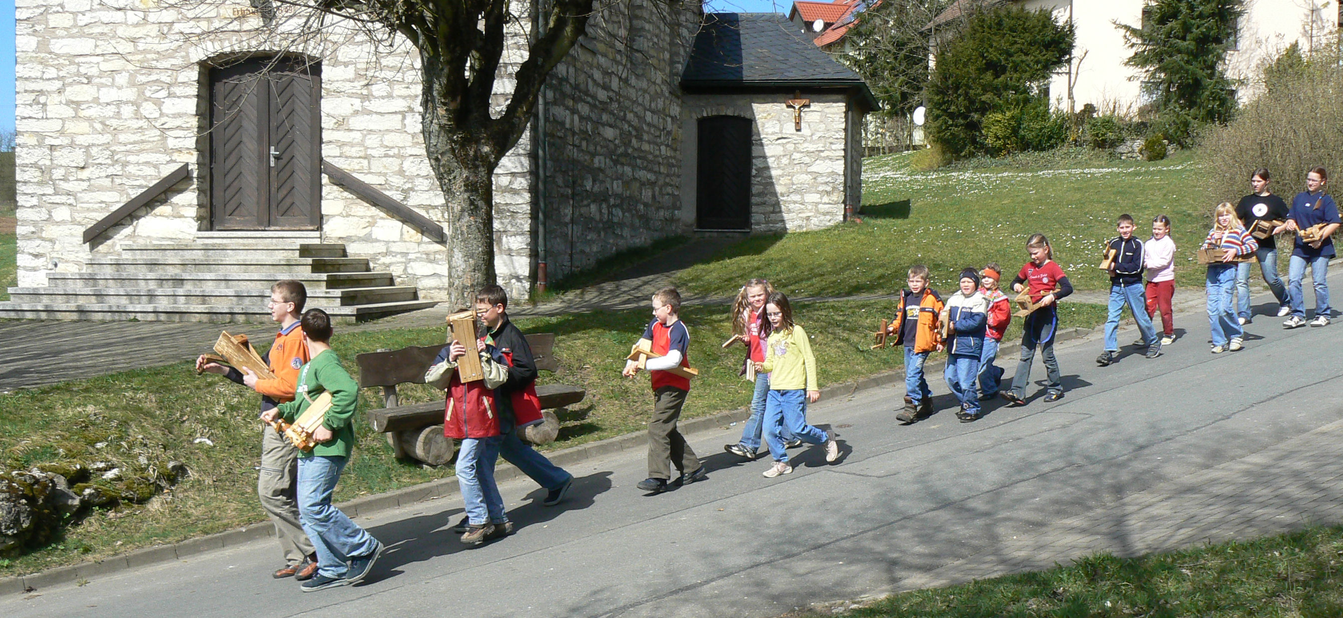 view of Laibarös, part of the municipality of Königsfeld